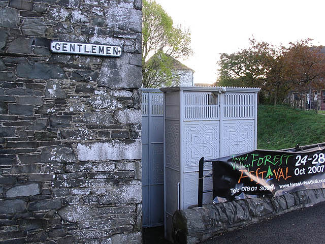 Old urinal in Walkerburn A cast iron urinal c.1897 from the Saracen Foundry (Macfalane's) of Glasgow. A unique survivor in the Borders. Ladies should approach this rare object with care. (Source: Borders and Berwick, An Architectural Guide by Charles Alexander Strang). Inside there are two urinal places, each with the following original lettering halfway up the wall: PLEASE ADJUST YOUR DRESS BEFORE LEAVING There must have been some funny looking guys in Walkerburn 100 years ago.